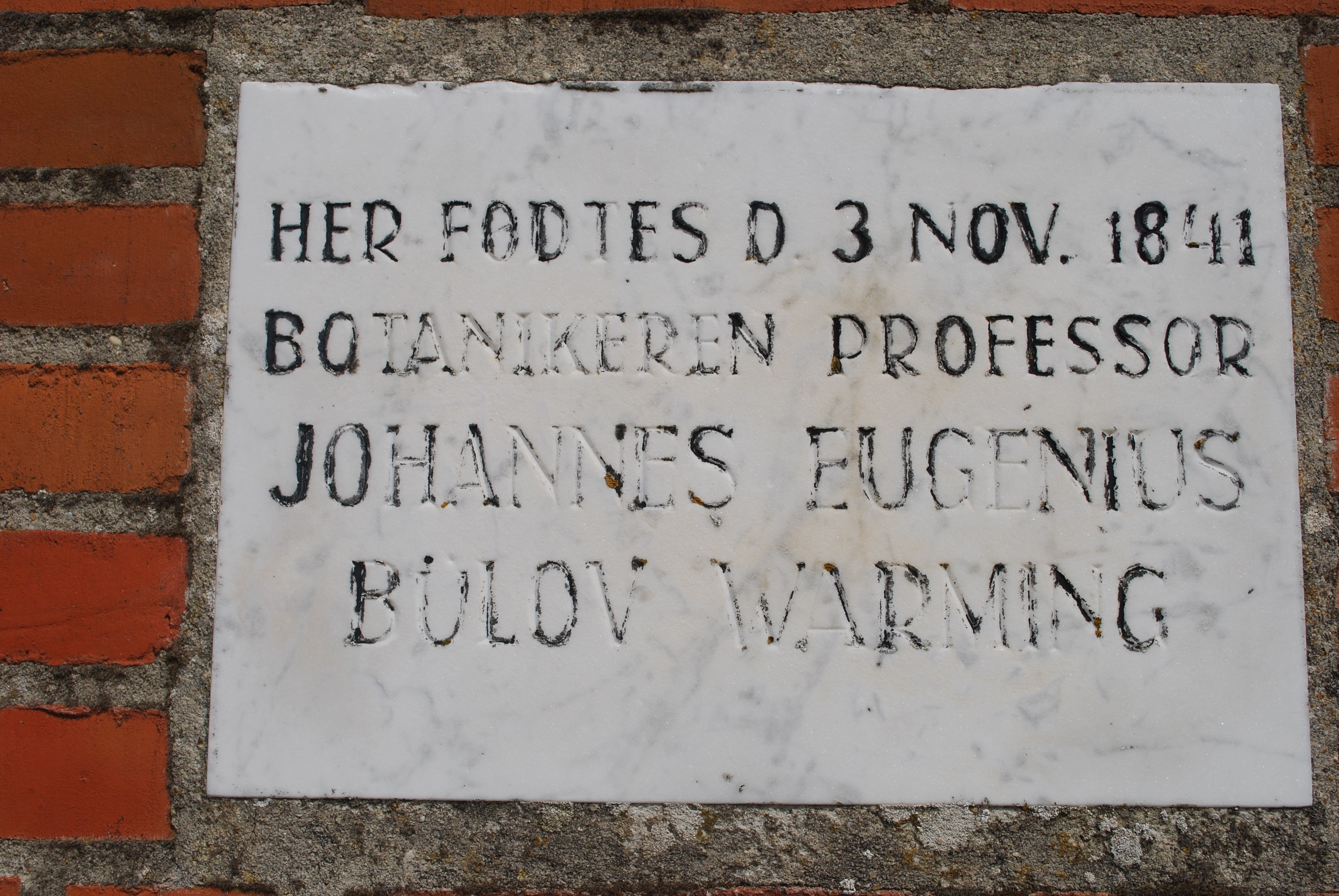 Memoeial tablet for Johannes Eugenius Bülow Warming on Mandø, Denmark